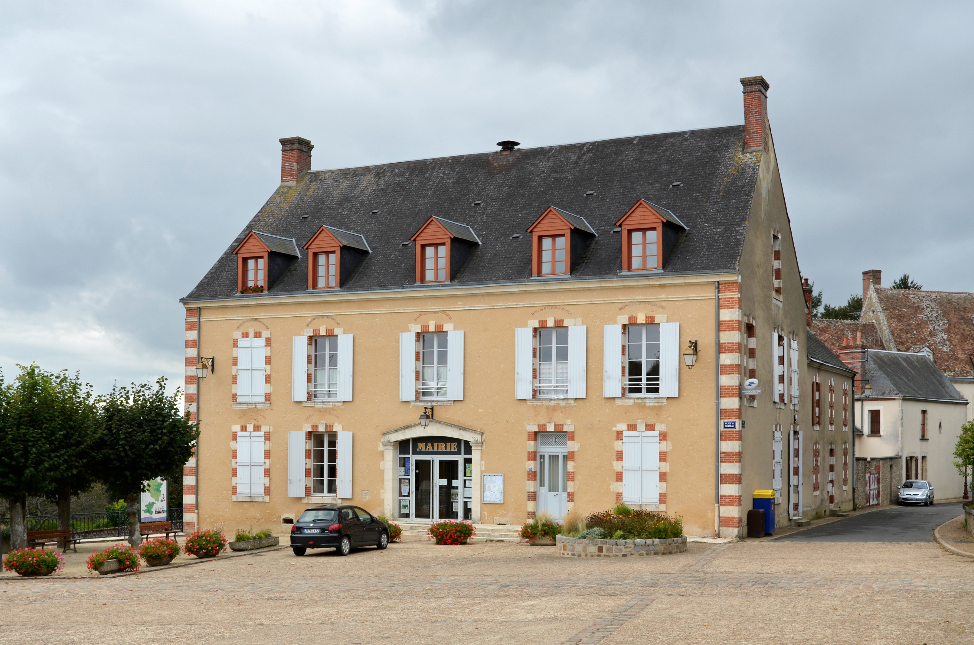 Town hall of Montmirail (Sarthe, France)